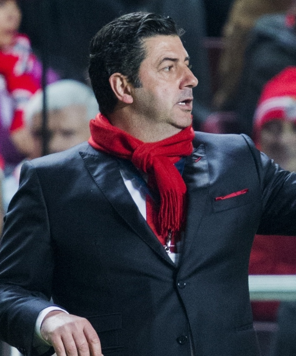 Rui Vitória